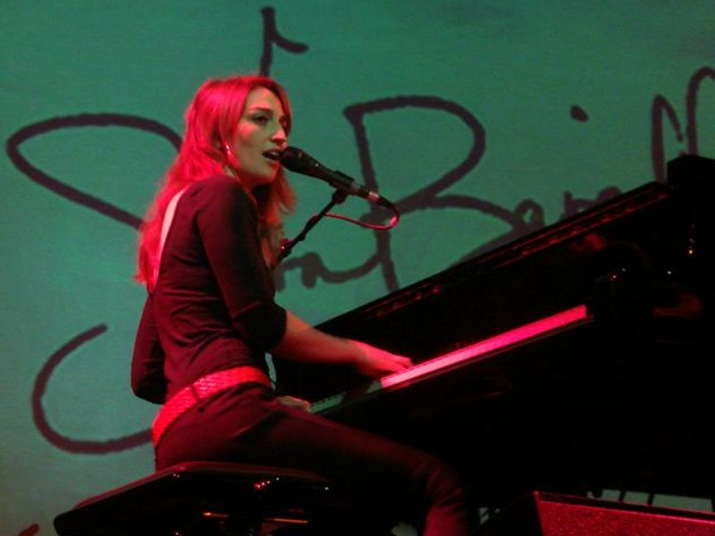 The first european showcase of Sara Bareilles at night theatre Sugar Factor Amsterdam, the Netherlands, 4 Apr 2008